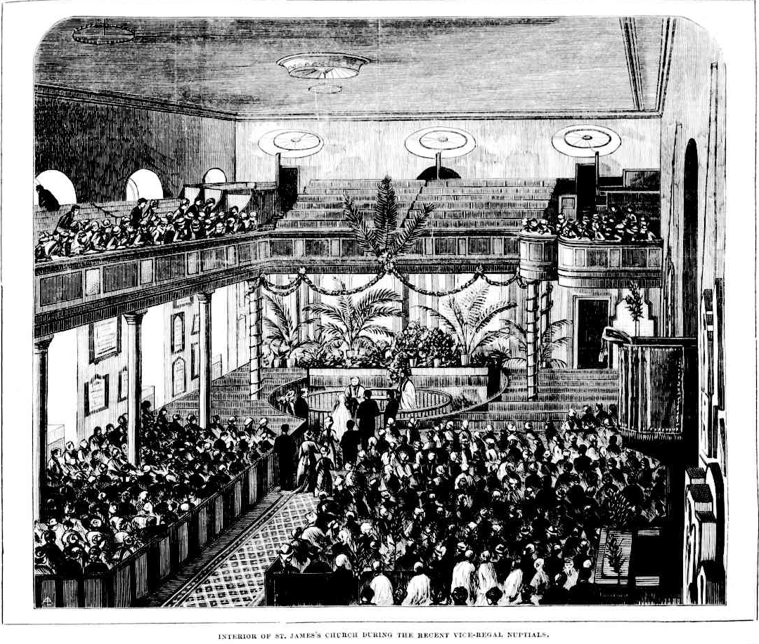 Illustration of the wedding of Nora Robinson and A.K. Finlay on 7 August 1878 in St James' Church, Sydney